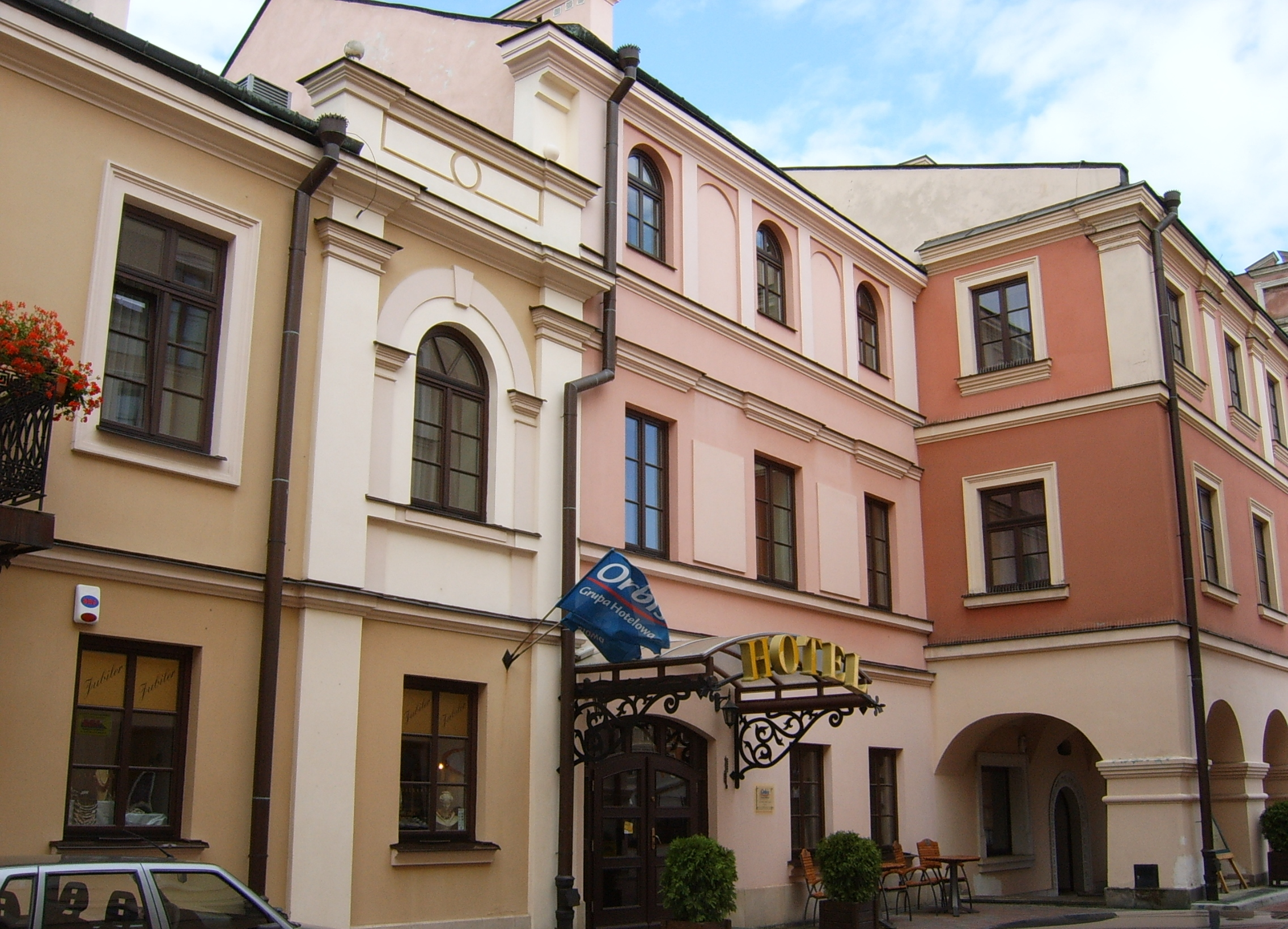 "Mercure Stare Miasto Zamość" (former "Zamojski" of Orbis Company) in Zamość (Poland), in The Old Town, next to the town hall